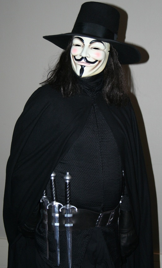 A person dressed up as V from "V for Vendetta". Picture taken at DragonCon 2010 on September 5, 2010.